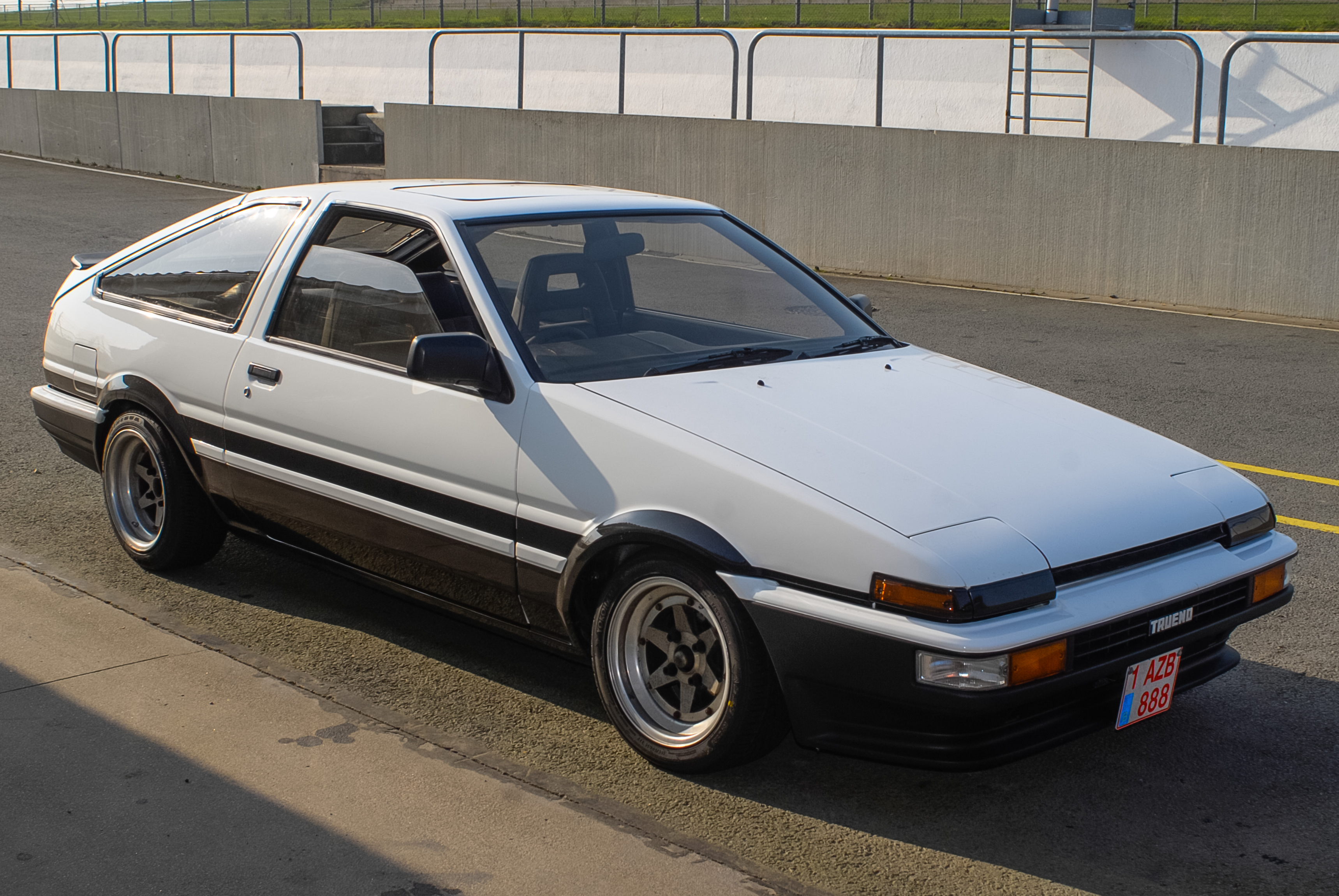 panda colors